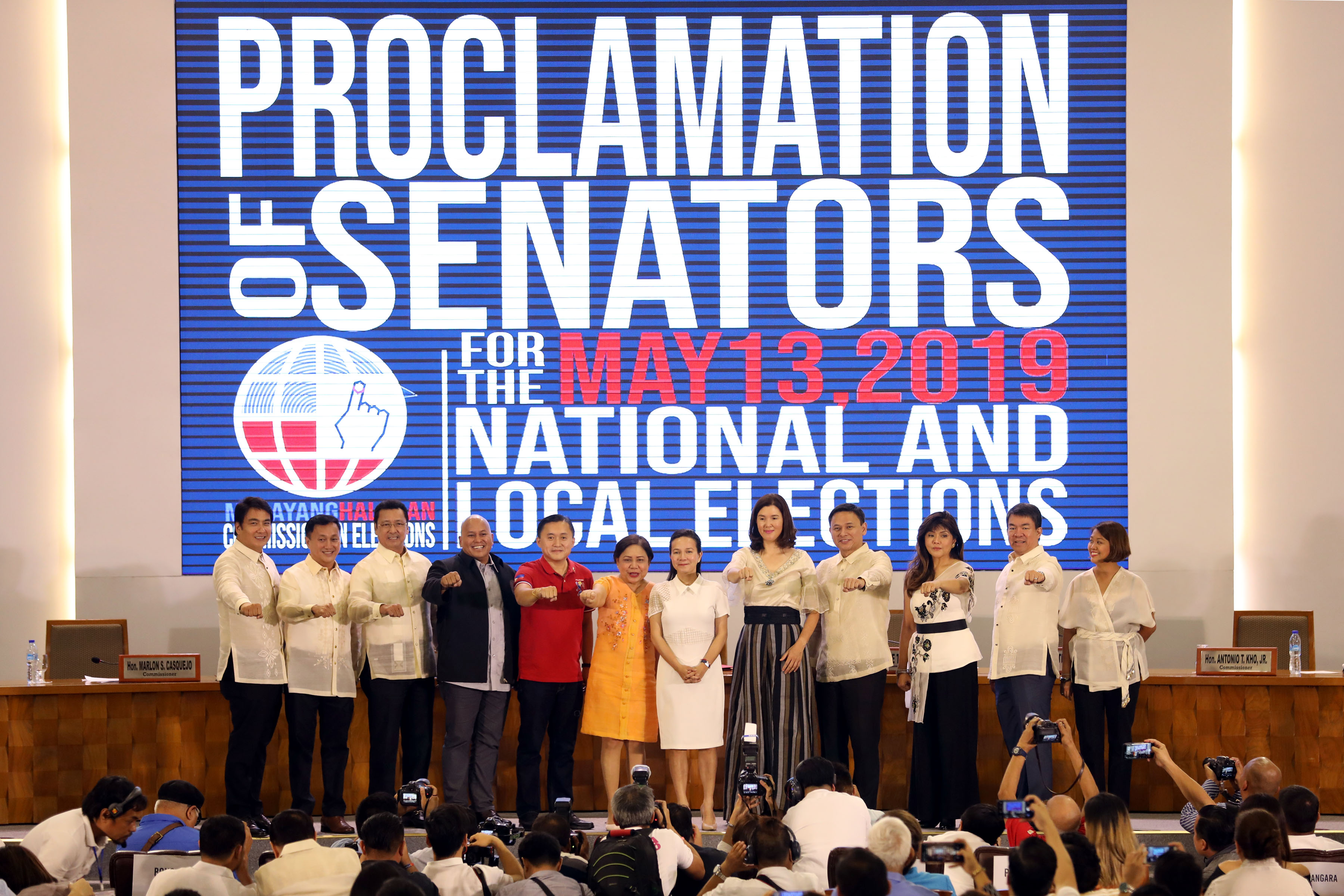 The National Board of Canvassers (NBOC) proclaims the 12 winning senators at the PICC Tent Forum in Pasay City on Wednesday (May 22, 2019). Leading the senators-elect with the highest number of votes are reelectionist Senators Cynthia Villar (in yellow dress) and Grace Poe-Llamanzares (in white dress) followed by former Special Assistant to the President Christopher Lawrence “Bong” Go (3rd place), come-backing senator Pilar Juliana “Pia” Cayetano (4th), former Philippine National Police chief Ronald “Bato” dela Rosa (5th), reelectionist Juan Edgardo “Sonny” Angara (6th); comebacking senator Manuel “Lito” Lapid (7th); former Ilocos Norte governor Maria Imelda Josefa “Imee” Marcos (8th); former Metro Manila Development Authority chairman Francis Tolentino (9th); reelectionist Aquilino Martin “Koko” Pimentel III (10th); former senator Ramon “Bong” Revilla, Jr. (11th); and reelectionist Maria Lourdes “Nancy” Binay (12th).